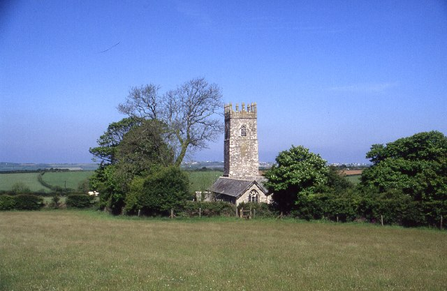 The Church at Advent, dedicated to Saint Adwena [1]